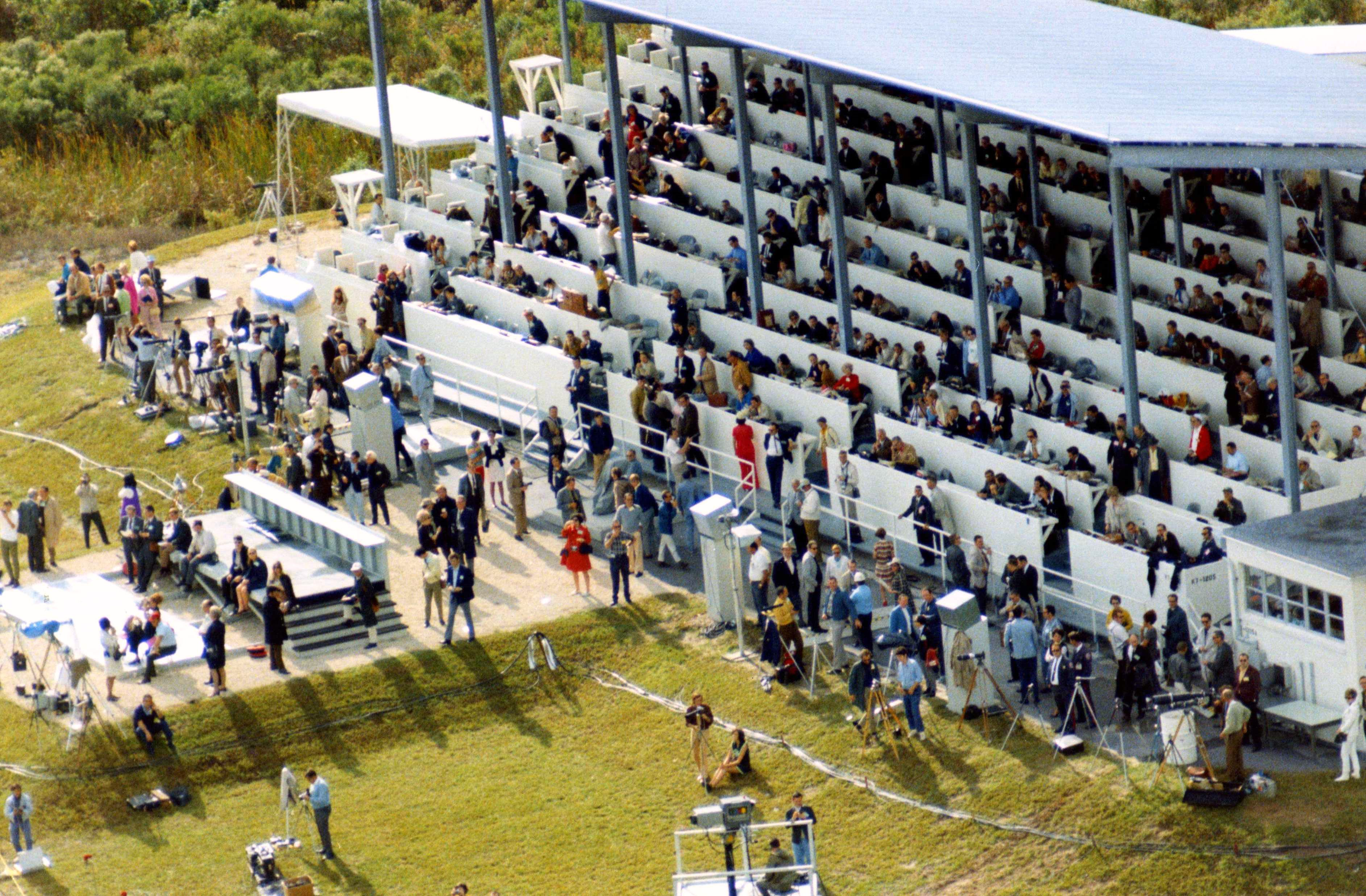 Grandstand at the Launch Complex 39 Press Site before the Apollo 12 launch.